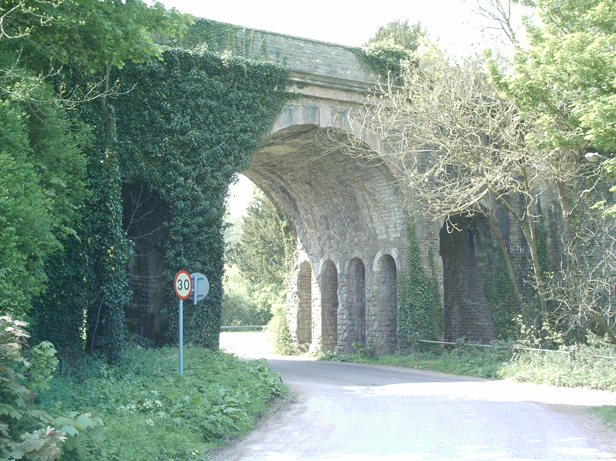 Author: Nigel Johns, Grimstone Viaduct from the East - April 2007